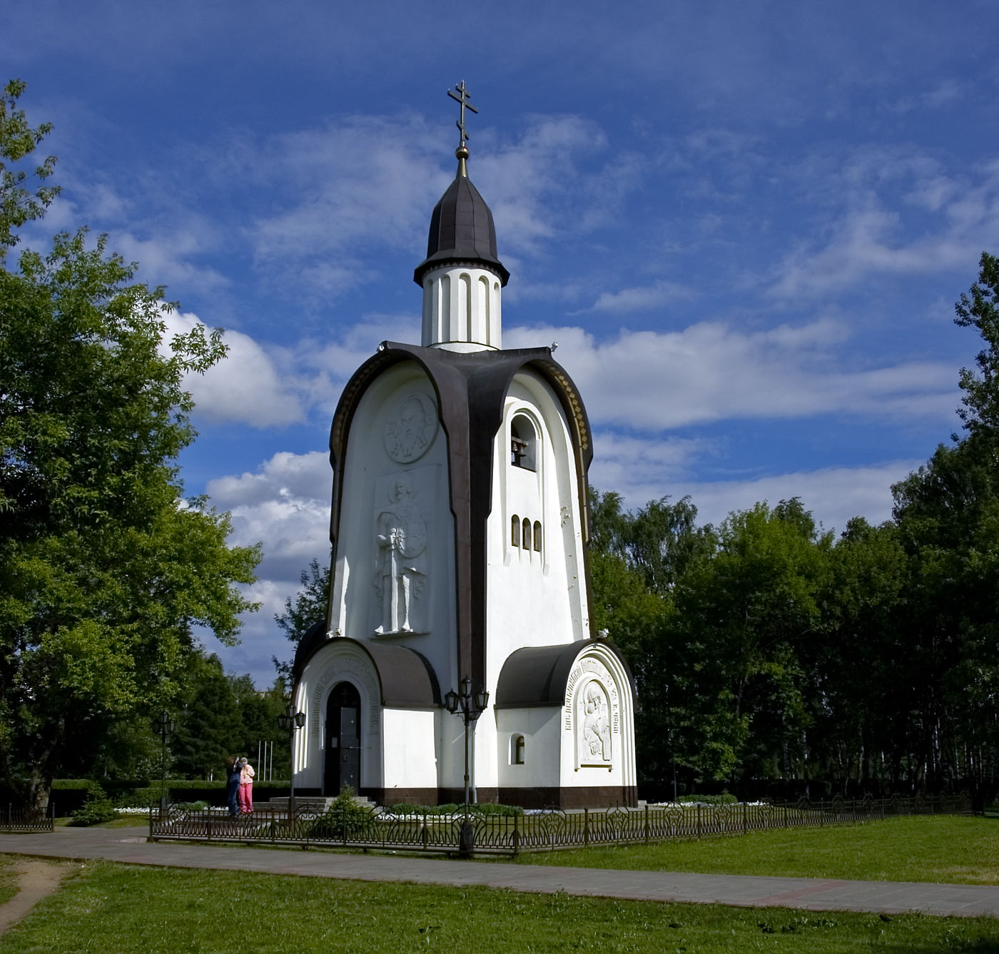 Chapel of Alexander Nevsky / Korolev, Russia